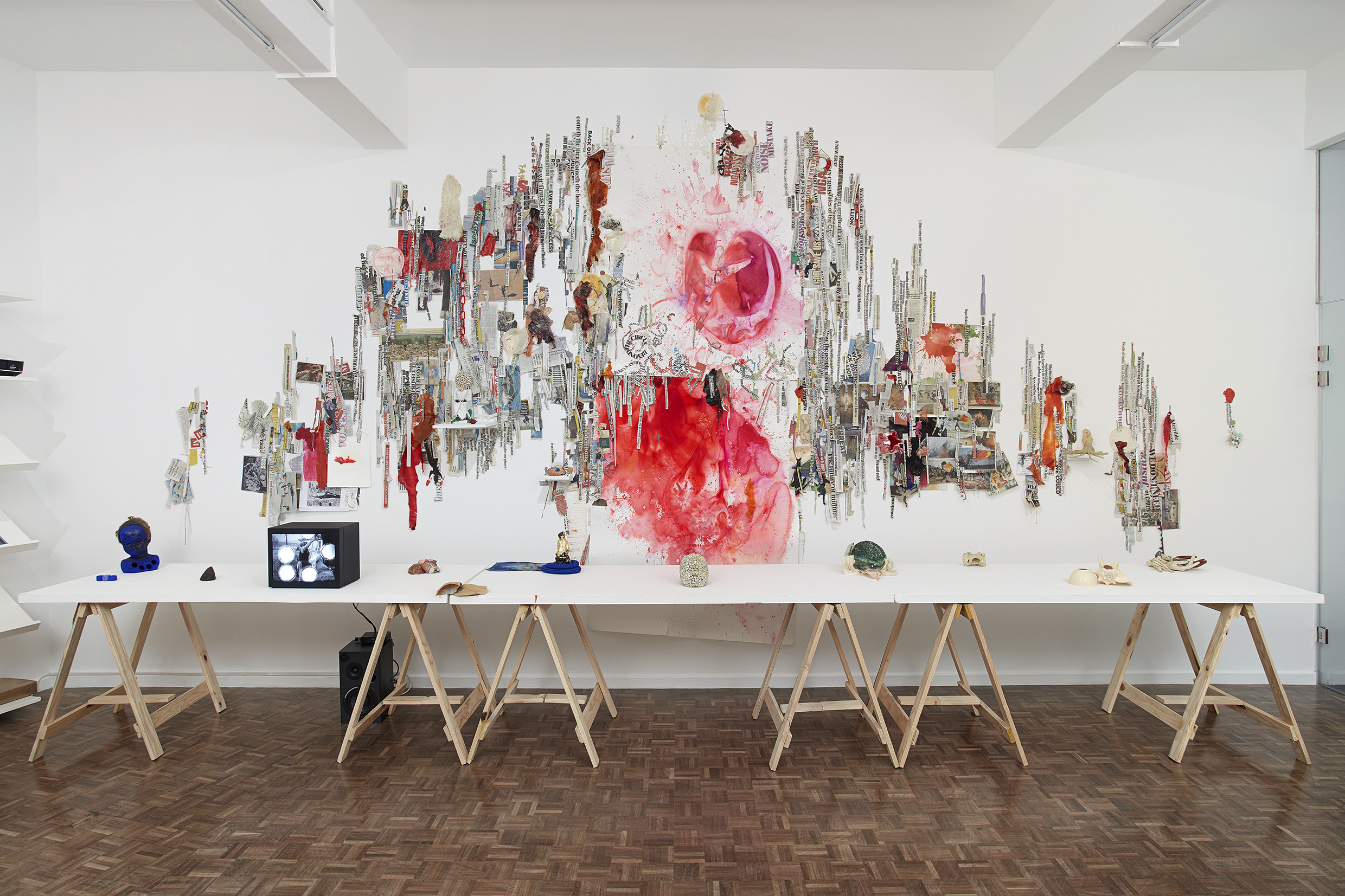 Installation